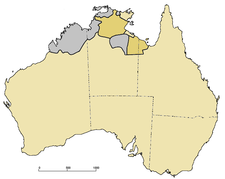 Pama-Nyungan languages (tan) and non-Pama-Nyungan languages (grey)